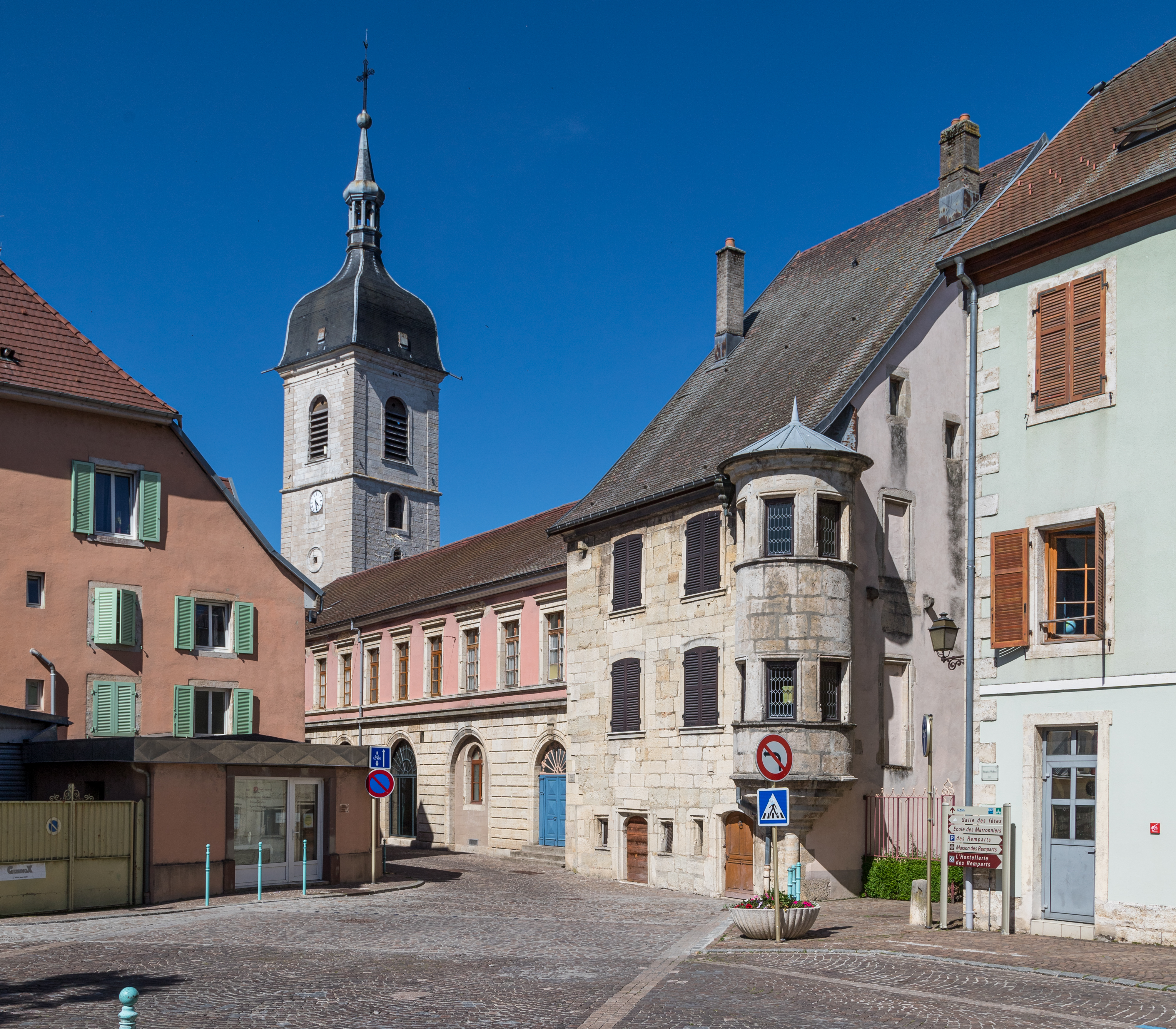 Delle: Place Raymond Formi and church of Saint Leodegar